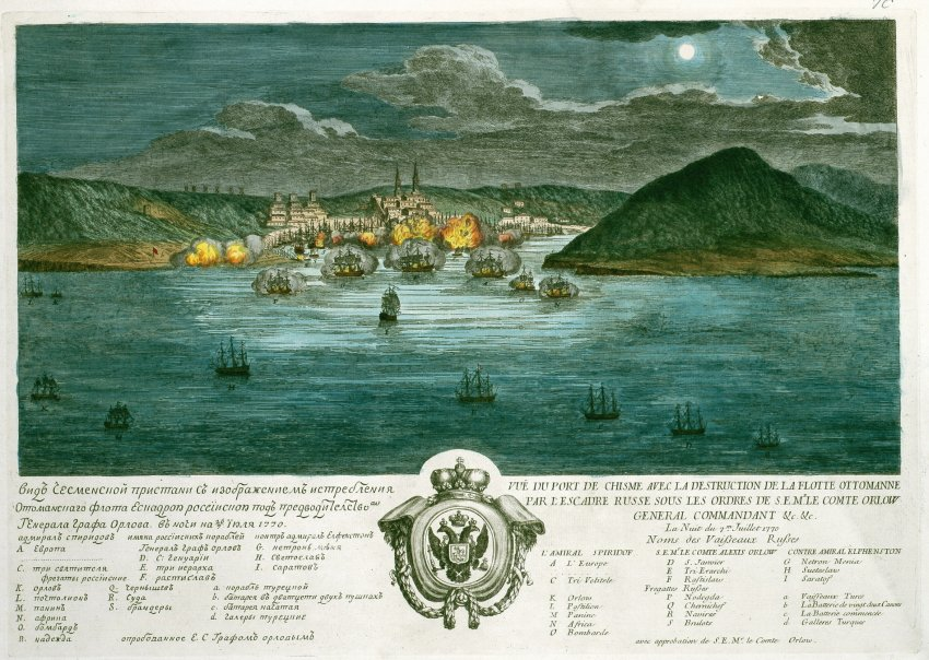 This is plan last day of Battle of Chesme between Russian and Ottoman navy took place at night 6/7 july 1770